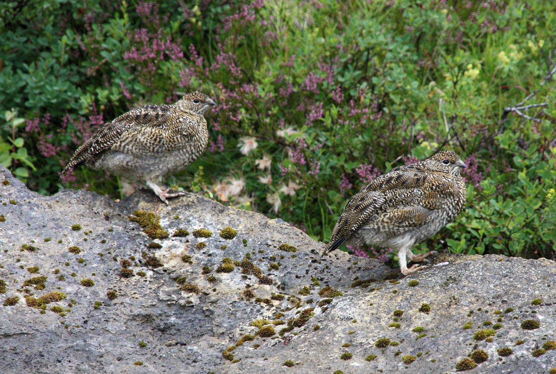 Rock Ptarmigan (Lagopus muta) - birds in Asbyrgi, Iceland.